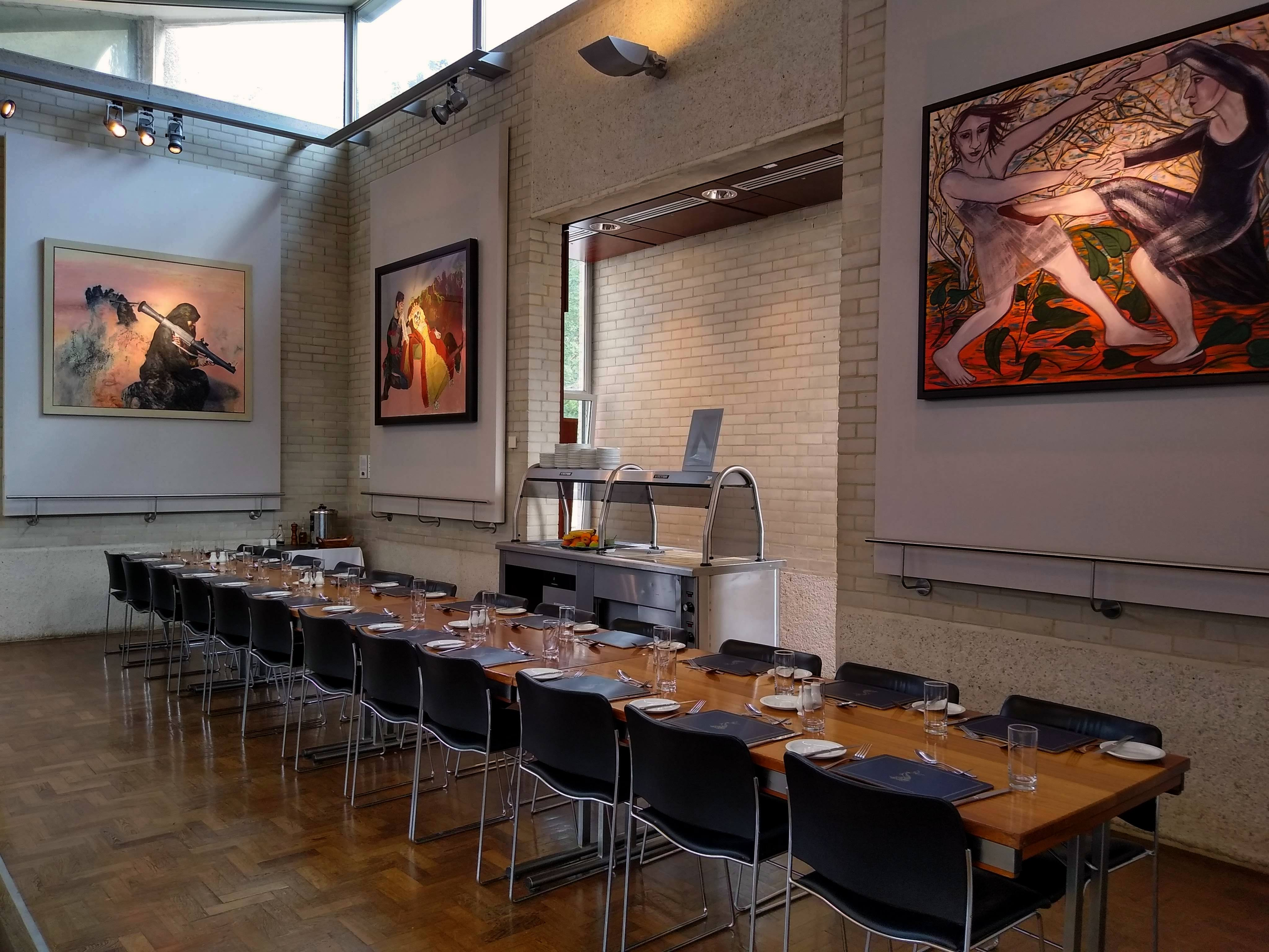 High Table at Murray Edwards College, Cambridge in July 2019.